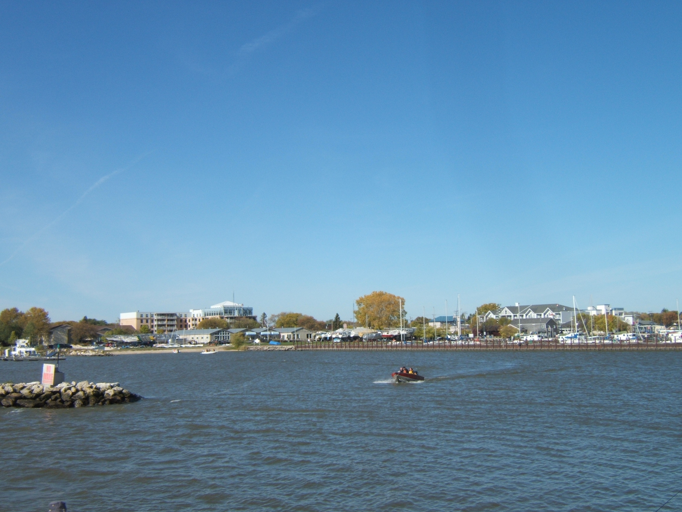 Gimli at Lake Winnipeg, Manitoba, Canada